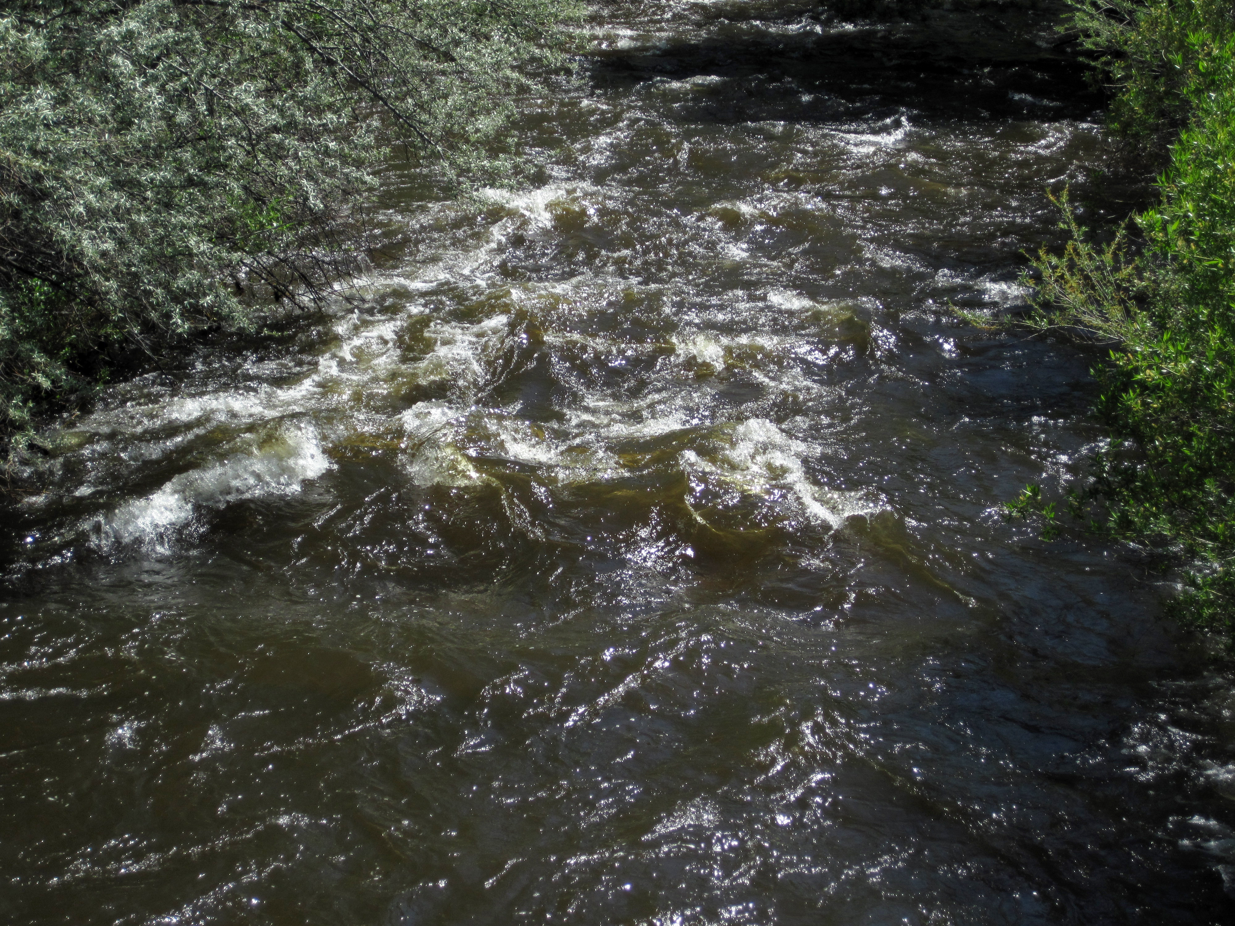 (looking downstream) Locality: view to the east from the Rt. 196 bridge in the town of Buffalo, northern Johnson County, northern Wyoming, USA